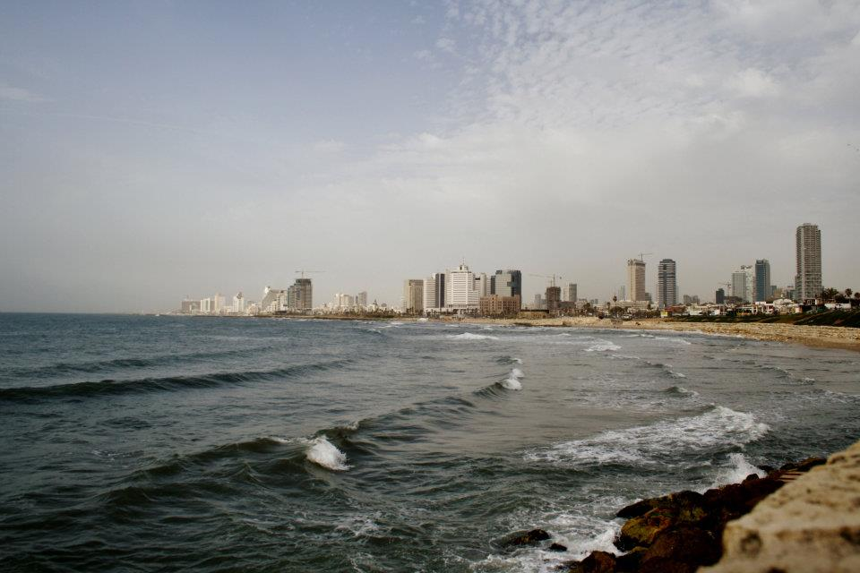 View over Tel Aviv from Jaffa